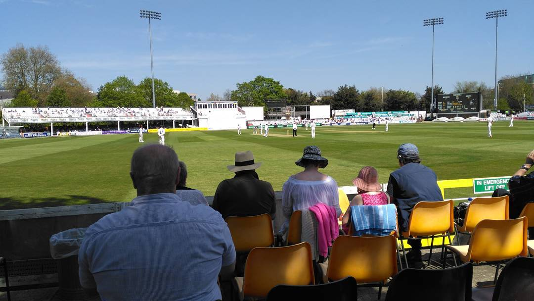 Photo taken by me at Day 1 of the tour match between Essex CCC and the Sri Lankans on 8 May 2016 at the Essex County Ground, Chelmsford.